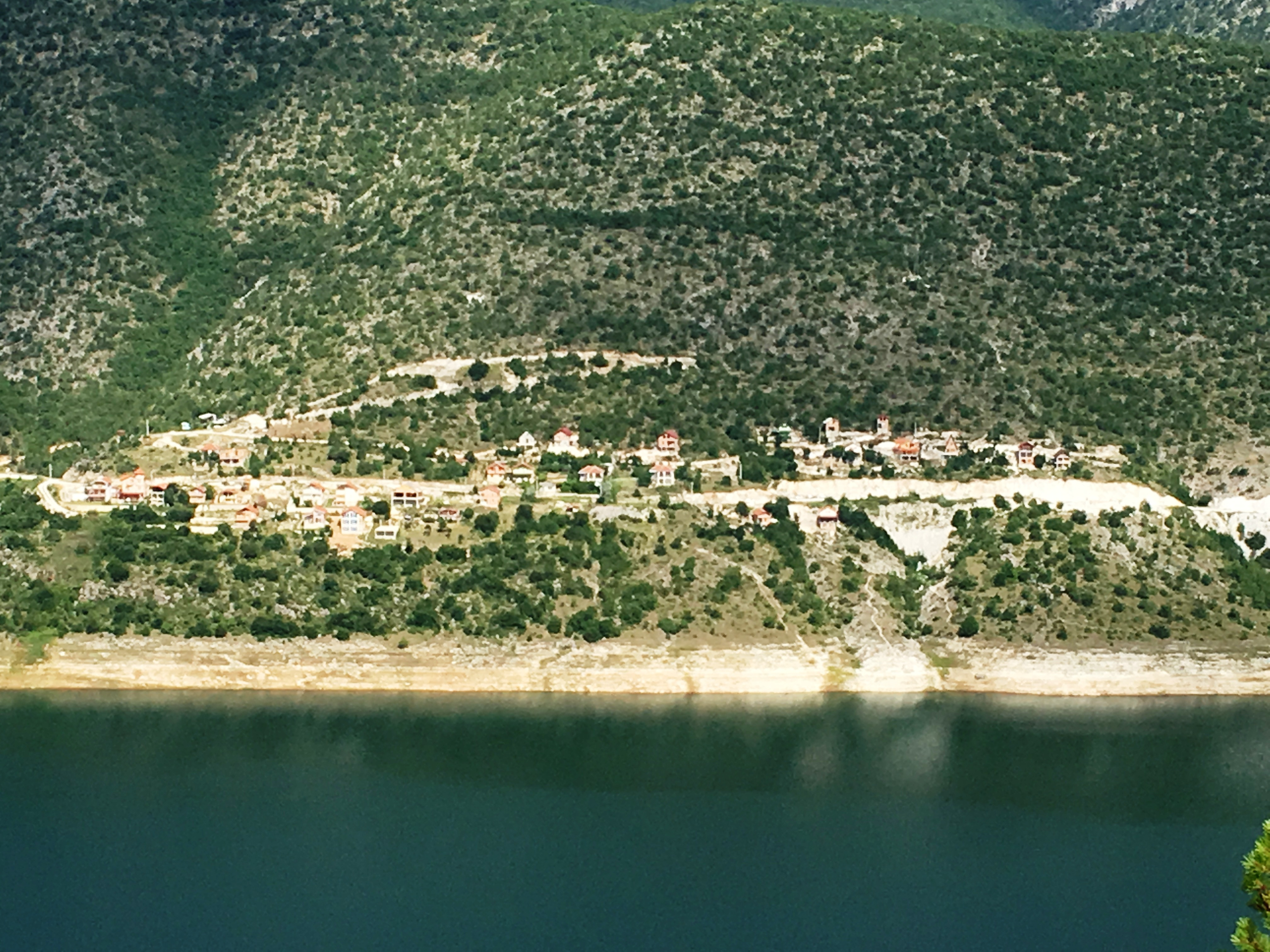 Panoramic view of the village of Zdunje